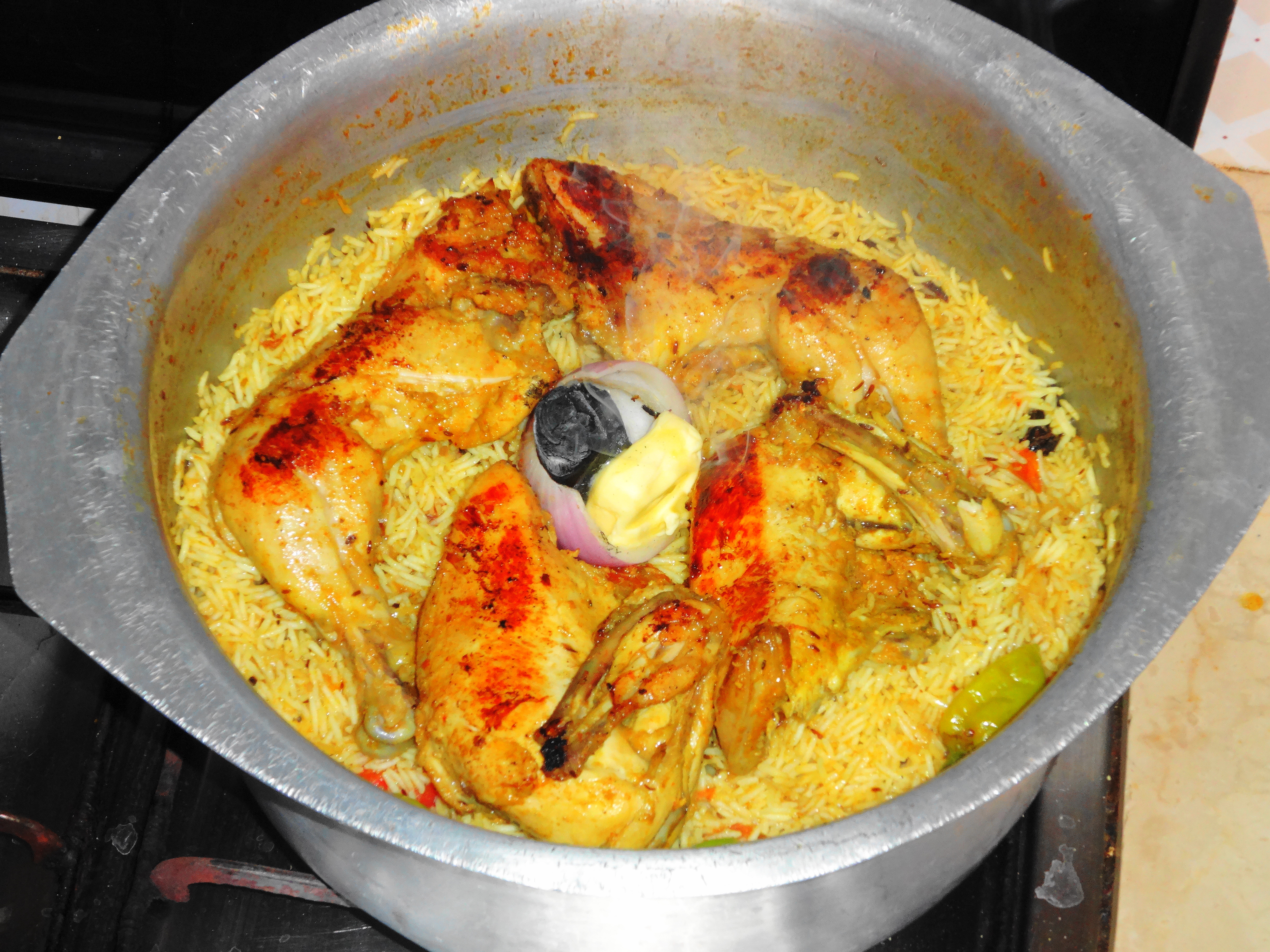 مندي الدجاج أثناء الطهي